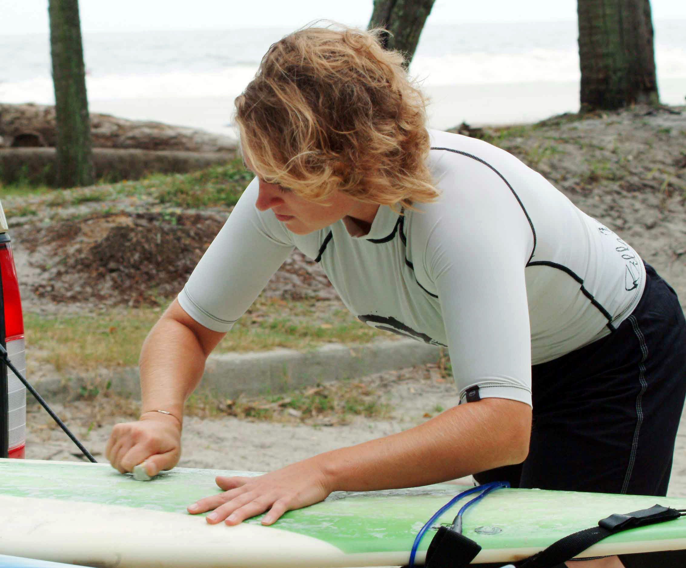 US Marine Corps (USMC) Corporal (CPL) Kimberley Thompson, Public Affairs Officer (PAO), stationed at Marine Corps Air Station (MCAS) Beaufort, South Carolina (SC), waxes her surfboard on the beach at Hunting Island, SC. CPL Thompson is demonstrating surfing techniques for an upcoming video documentary. (Released to Public) Location: MCAS, BEAUFORT, SOUTH CAROLINA (SC) UNITED STATES OF AMERICA (USA)